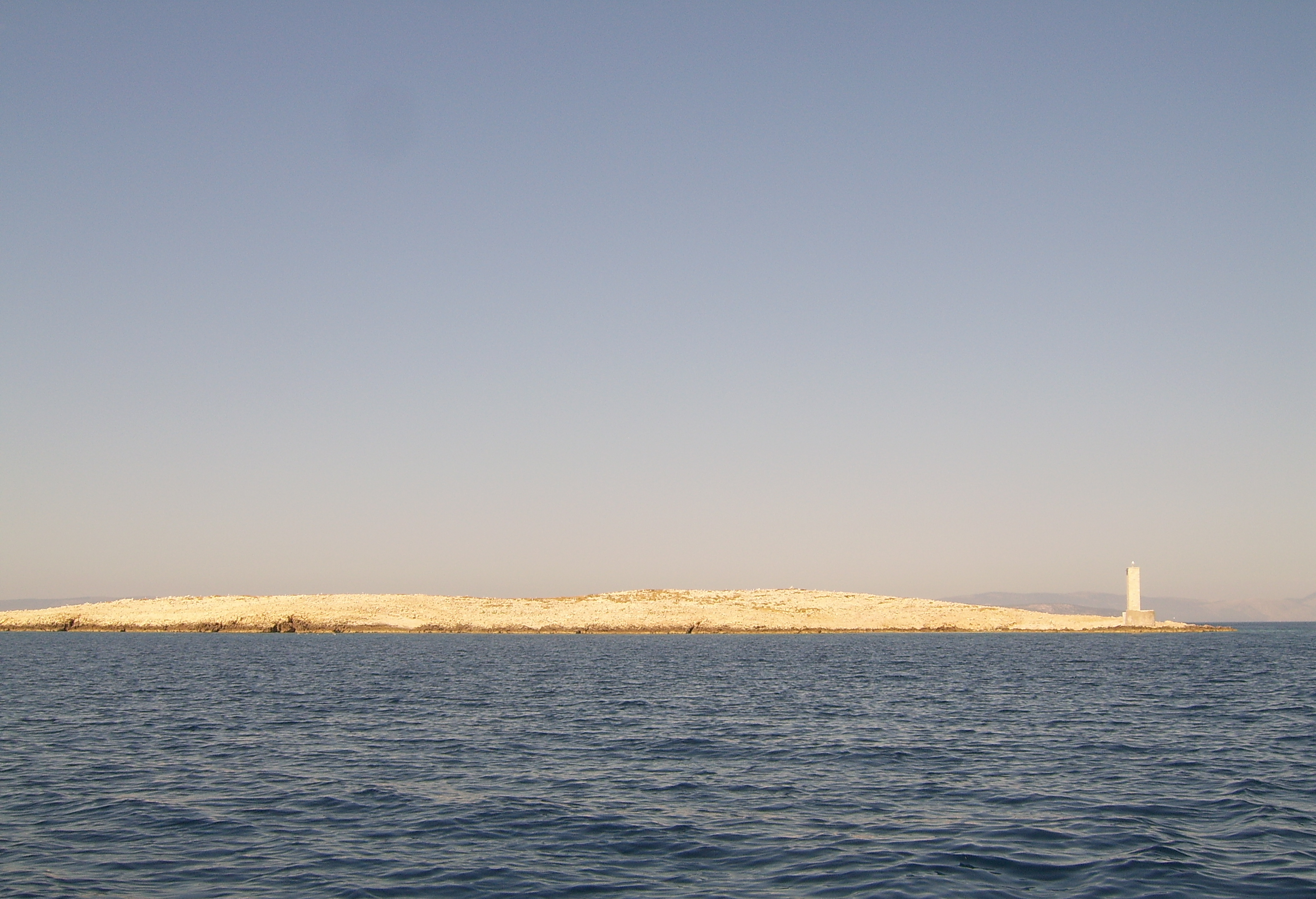 Little island Galun in front of village Stara Baška, near island Krk, in Kvarner bay/Croatia